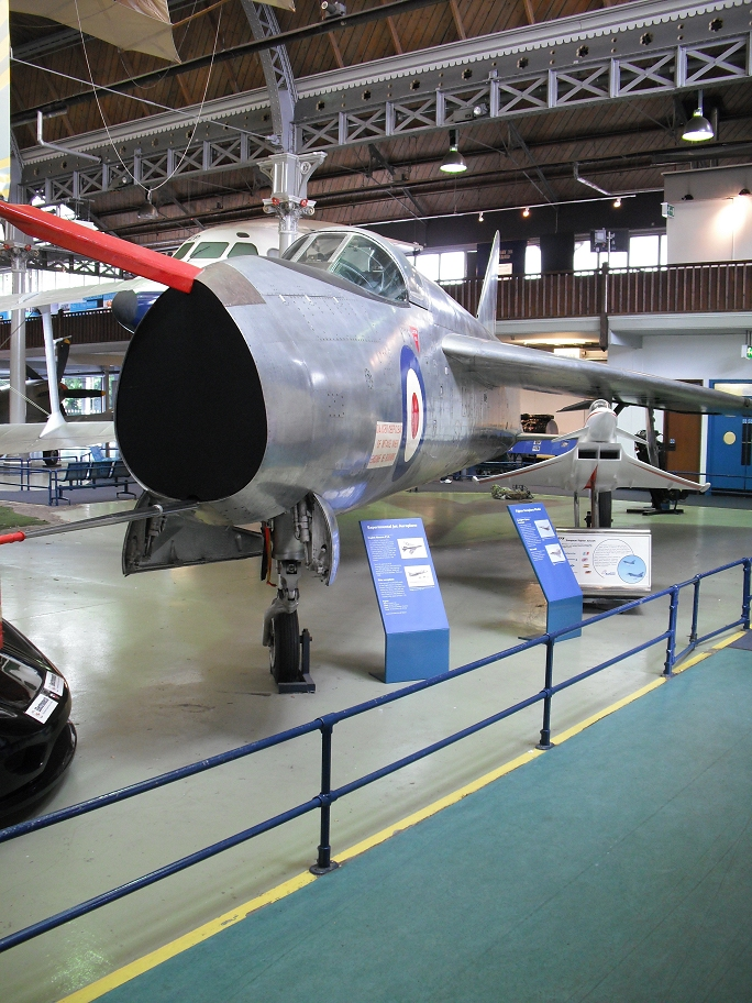 Lightning prototype